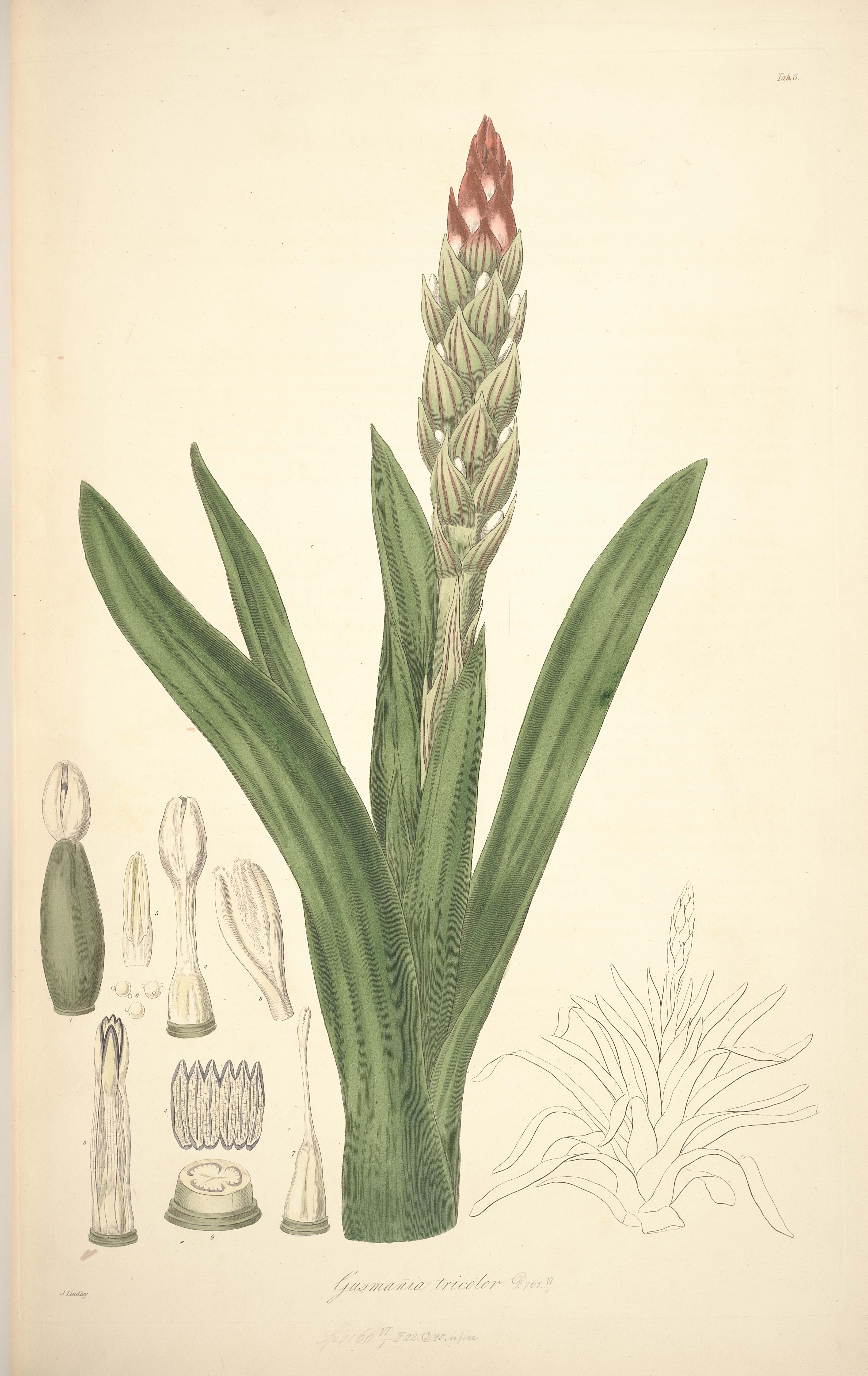 Illustration from John Lindley's "Collectanea botanica or, figures and botanical illustrations of rare and curious exotic plants"